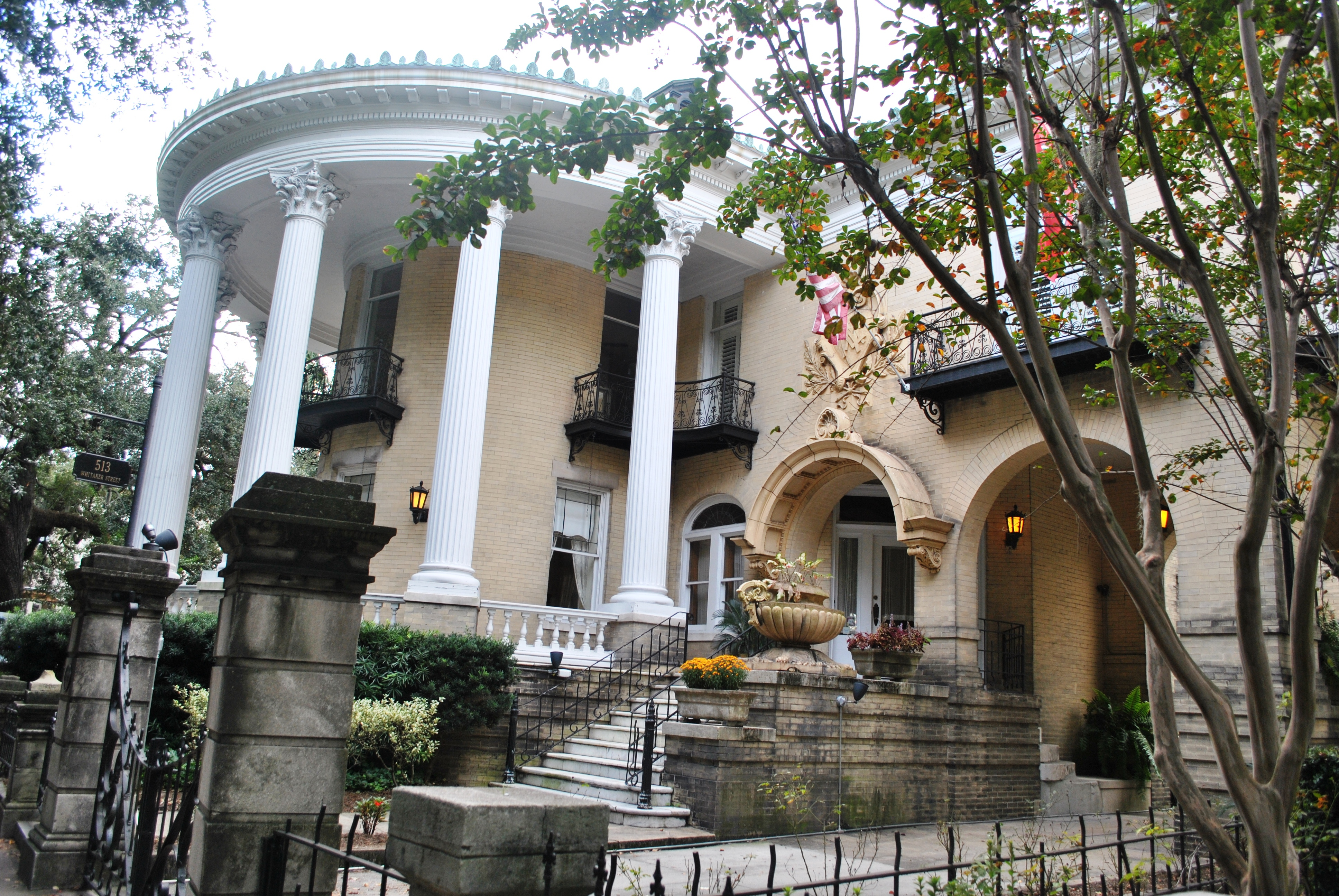 Built for Lawrence McNeil by G.L. Norman, 1903